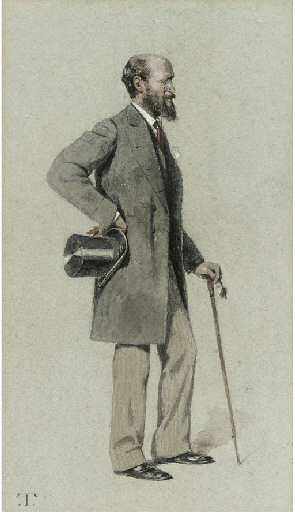 Caricature of Lord Henry Scott MP. Caption read "South Hants". Accompanying biography in Vanity Fair read "Lord Henry is a devoted partisan, a practical landlord, a ready speaker, a shrewd man of business, and a pattern of the domestic virtues. He has a proper pride of family, and he is well-bred and amiable to all those who happen to come into contact with him".